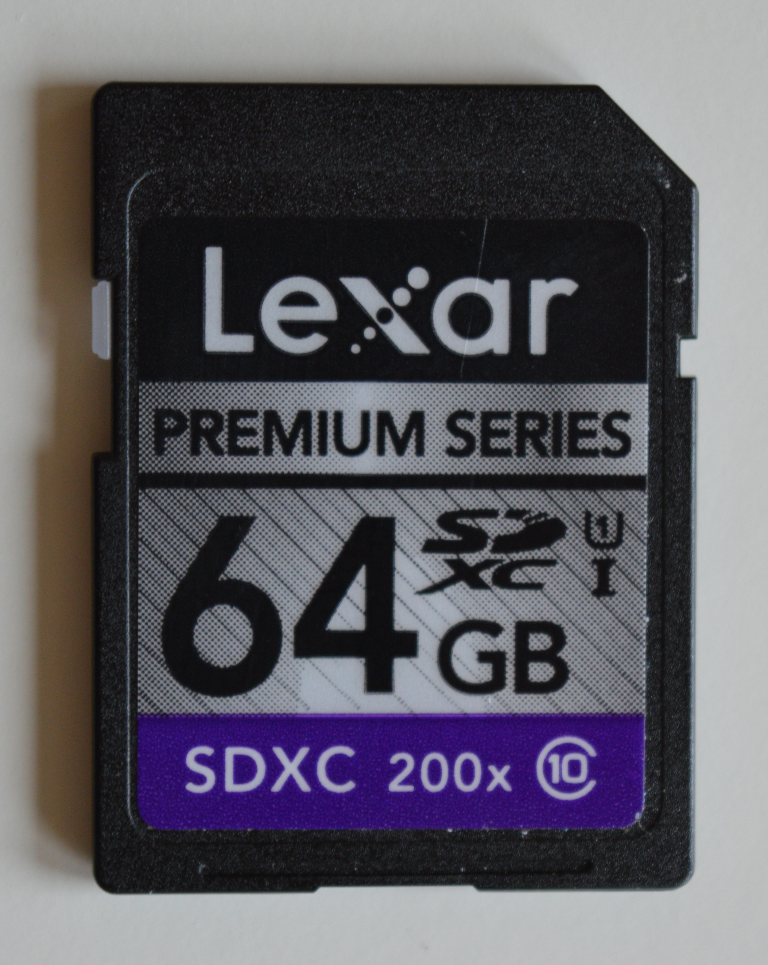 Lexar SDXC card, class 10, 64 gb